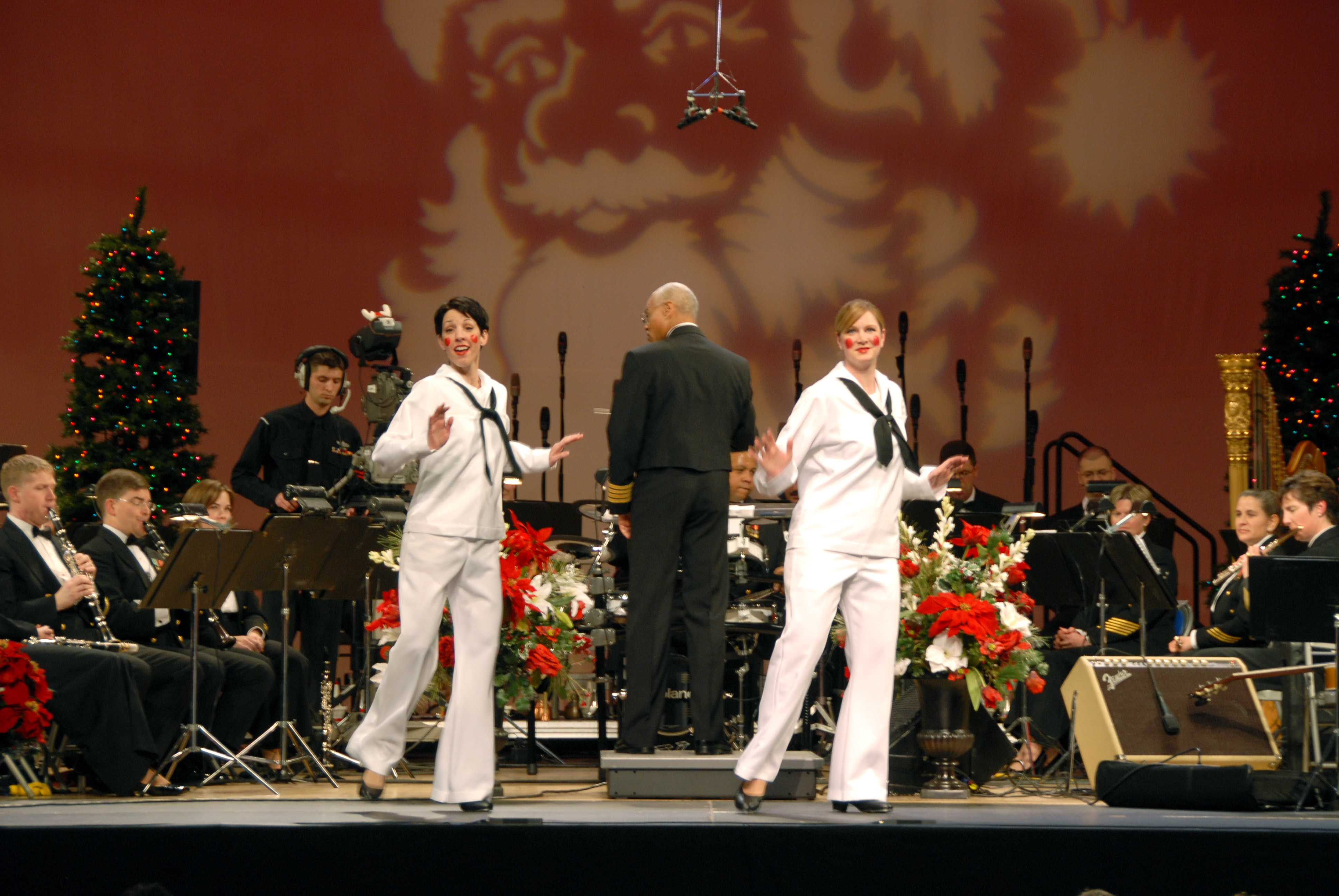 WASHINGTON, D.C. (Dec. 20, 2008) Musician 1st Class Amanda Polychronis, left, and Musician 1st Class Jennifer Stothoff perform as toy soldiers for the Navy Band performance of "Parade of the Wooden Soldiers" at DAR Constitution Hall as part of the annual holiday concert the Navy Band performs in Washington, D.C. The concert "Season of Magic," played to a capacity crowd. (U.S. Navy photo by Chief Musician Stephen Hassay/Released)